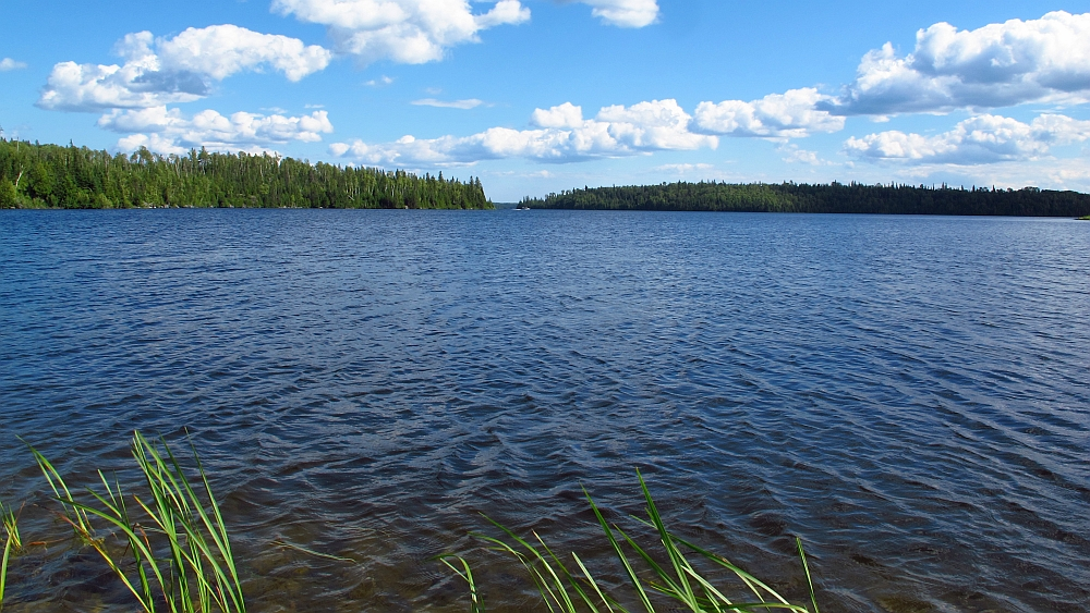 Larder Lake - looking south from 2nd Ave.